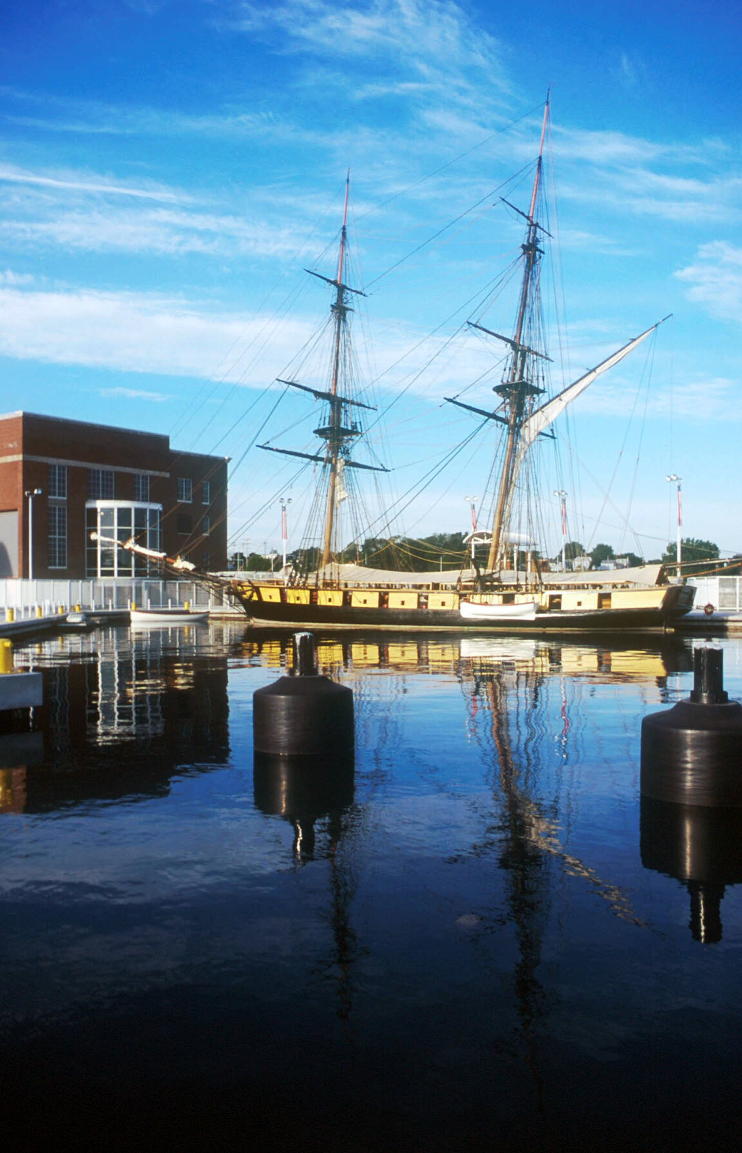 U.S. Brig Niagara in port at the Erie Maritime Museum, Erie, Pennsylvania, USA